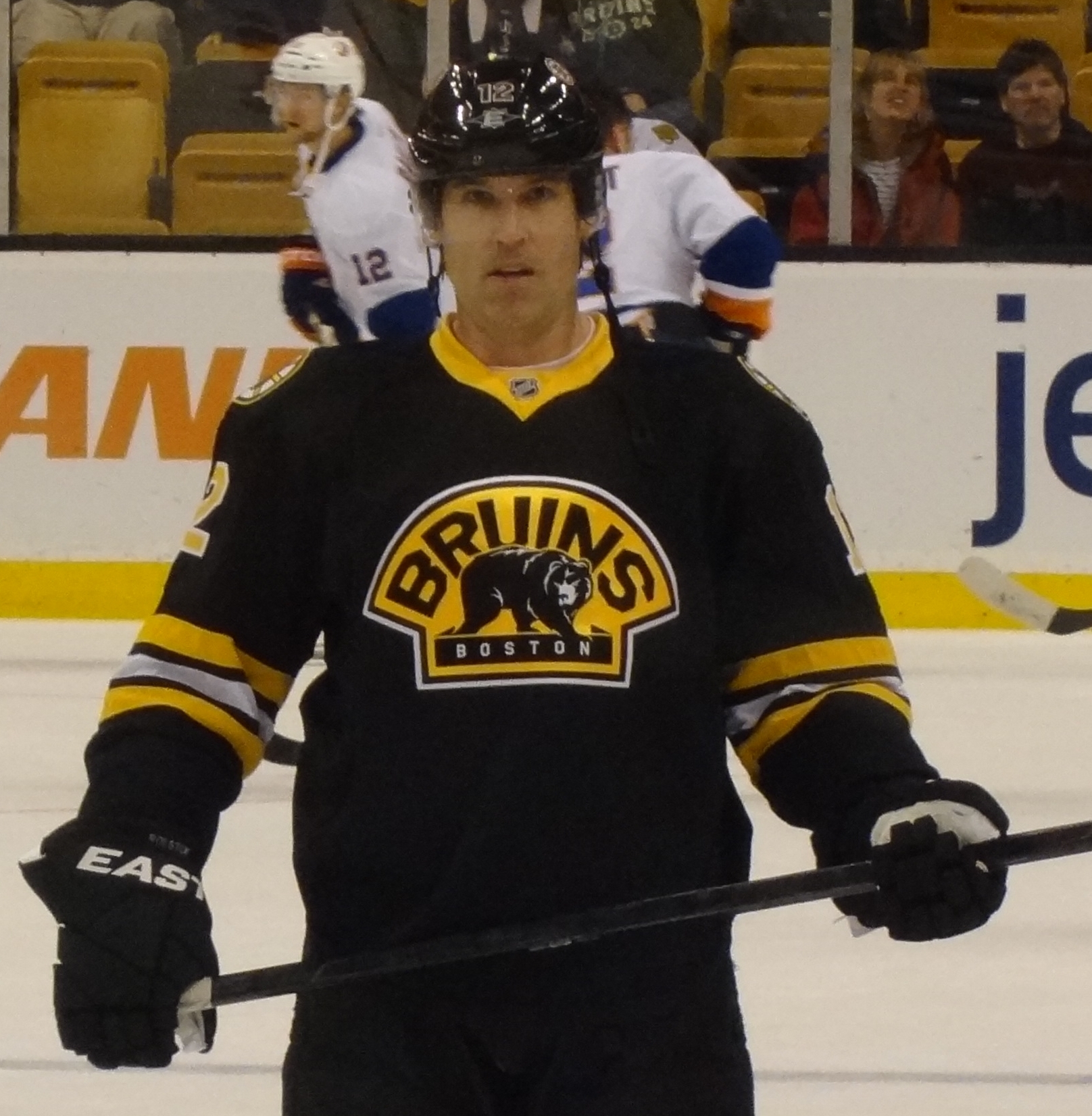 Brian Rolston during warm-ups of the Boston Bruins vs New York Islanders game at the Boston Garden.